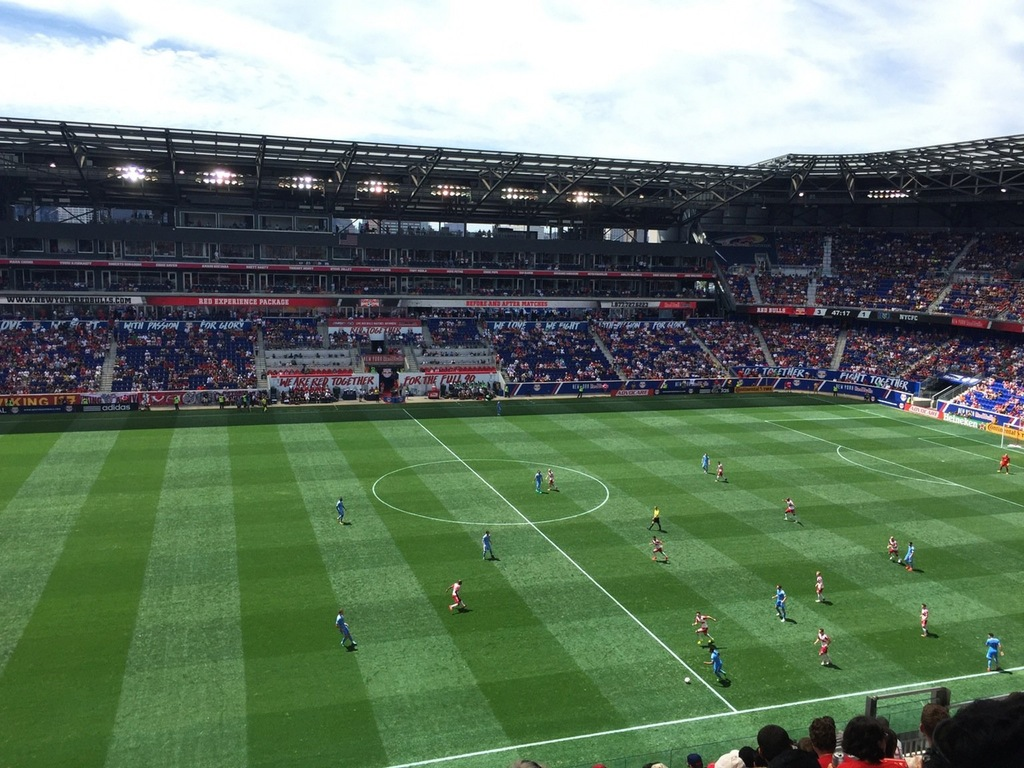 Red Bull Arena during the Red Bull's 4-1 victory over NYCFC